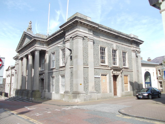 County Hall - Castle Ditch